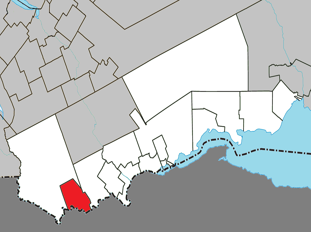 Location of L'Ascension-de-Patapédia, Quebec within Avignon Regional County Municipality.